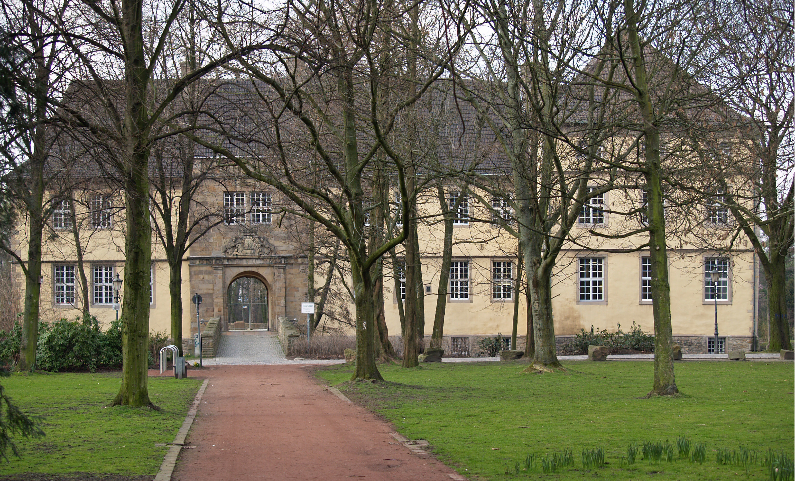 Castle Struenkede, south side with entrance in Herne, Germany